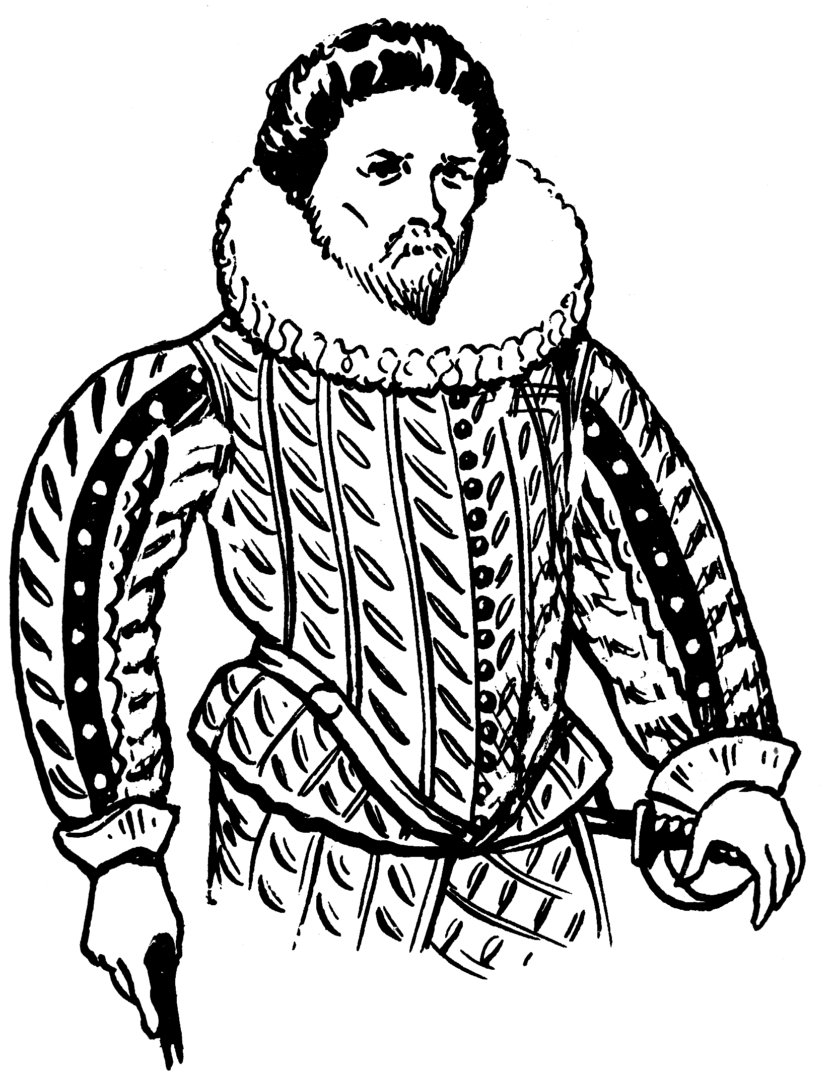 Line art drawing of a man wearing a doublet.